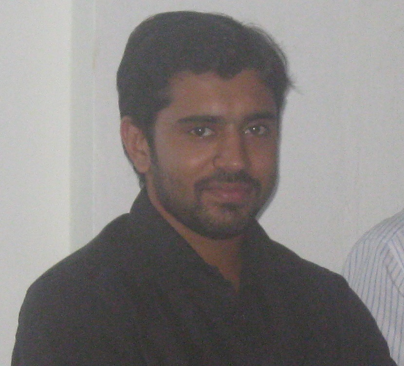 Malayalam superstar Nivin Pauly attending a function in Muvattupuzha in 2010